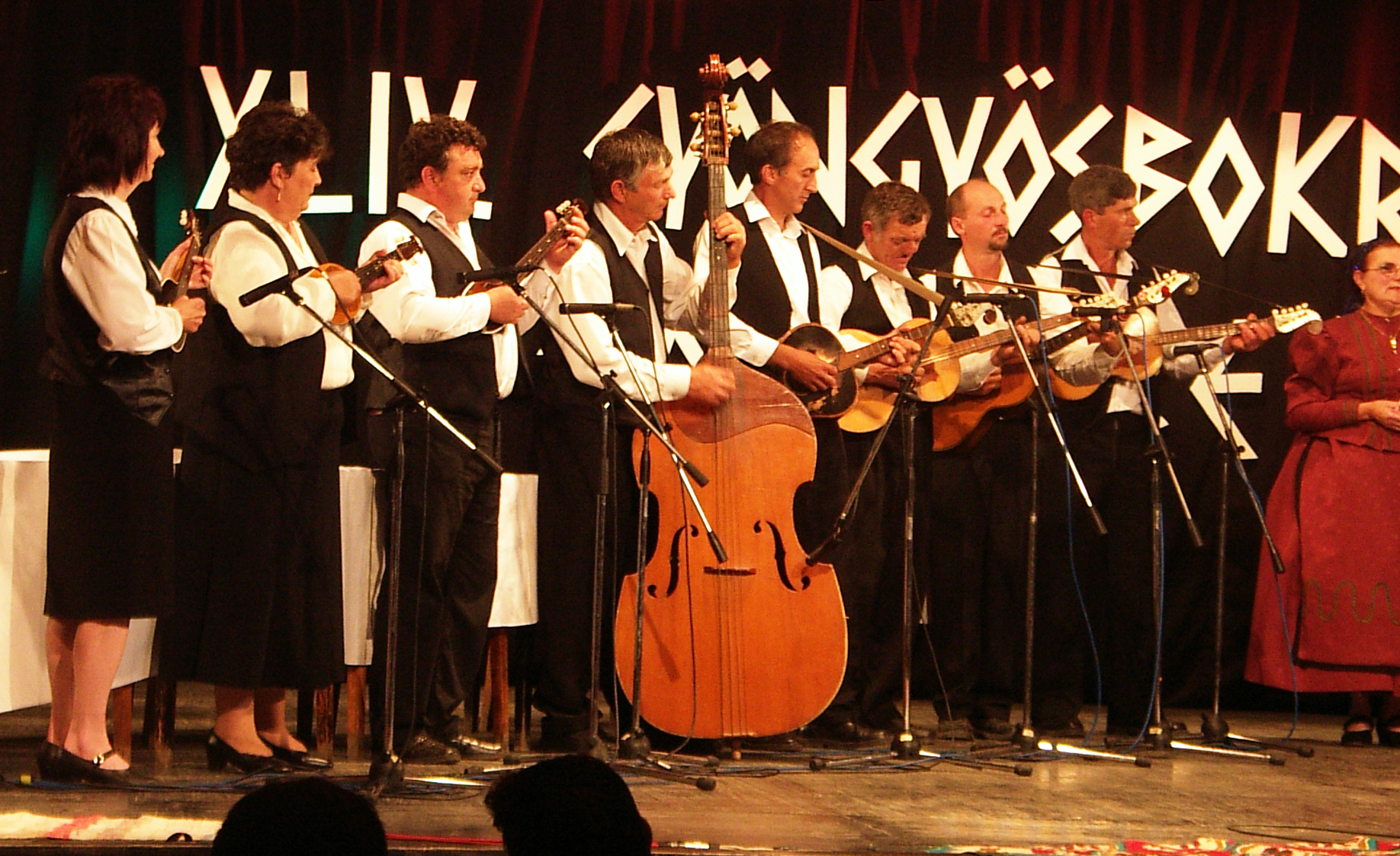 Hungarian tambura ensemble in XXXI. Durindó - XLIV. Gyöngyösbokréta festival (Bečej/Óbecse).